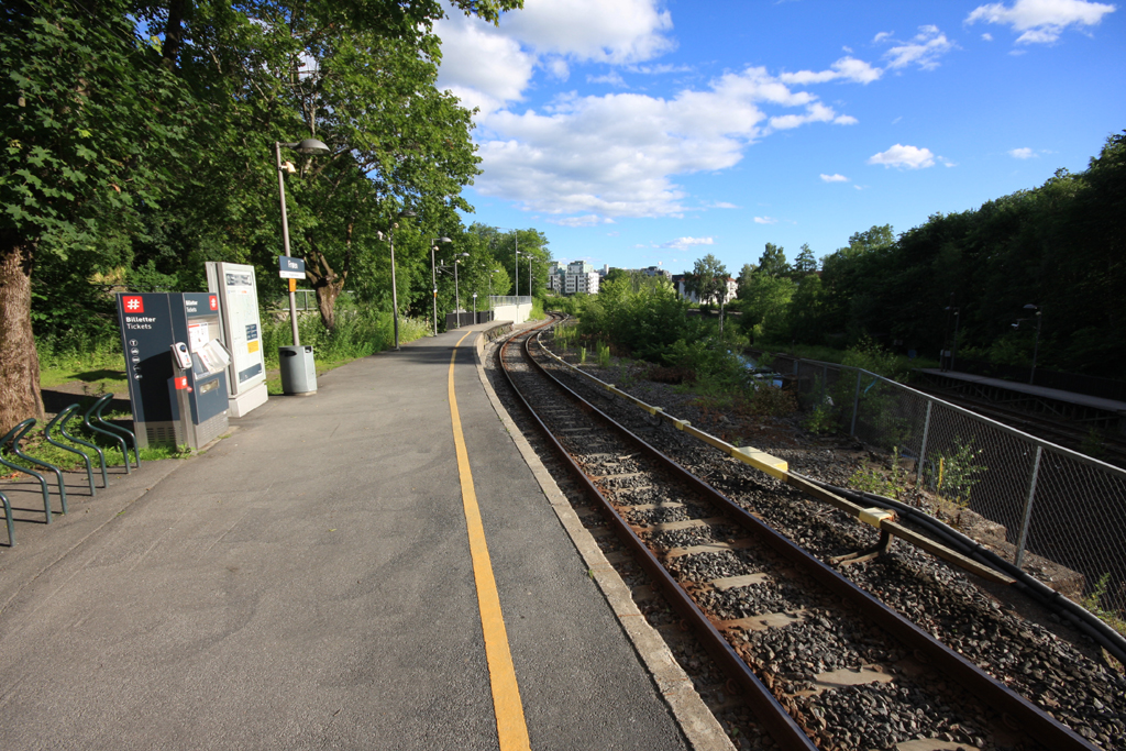 Frøen Metrostation. Seen from the northbound platform 1. In direction to Majorstuen. In the background, you can see platform 2 which actually is at distance at a lower level.